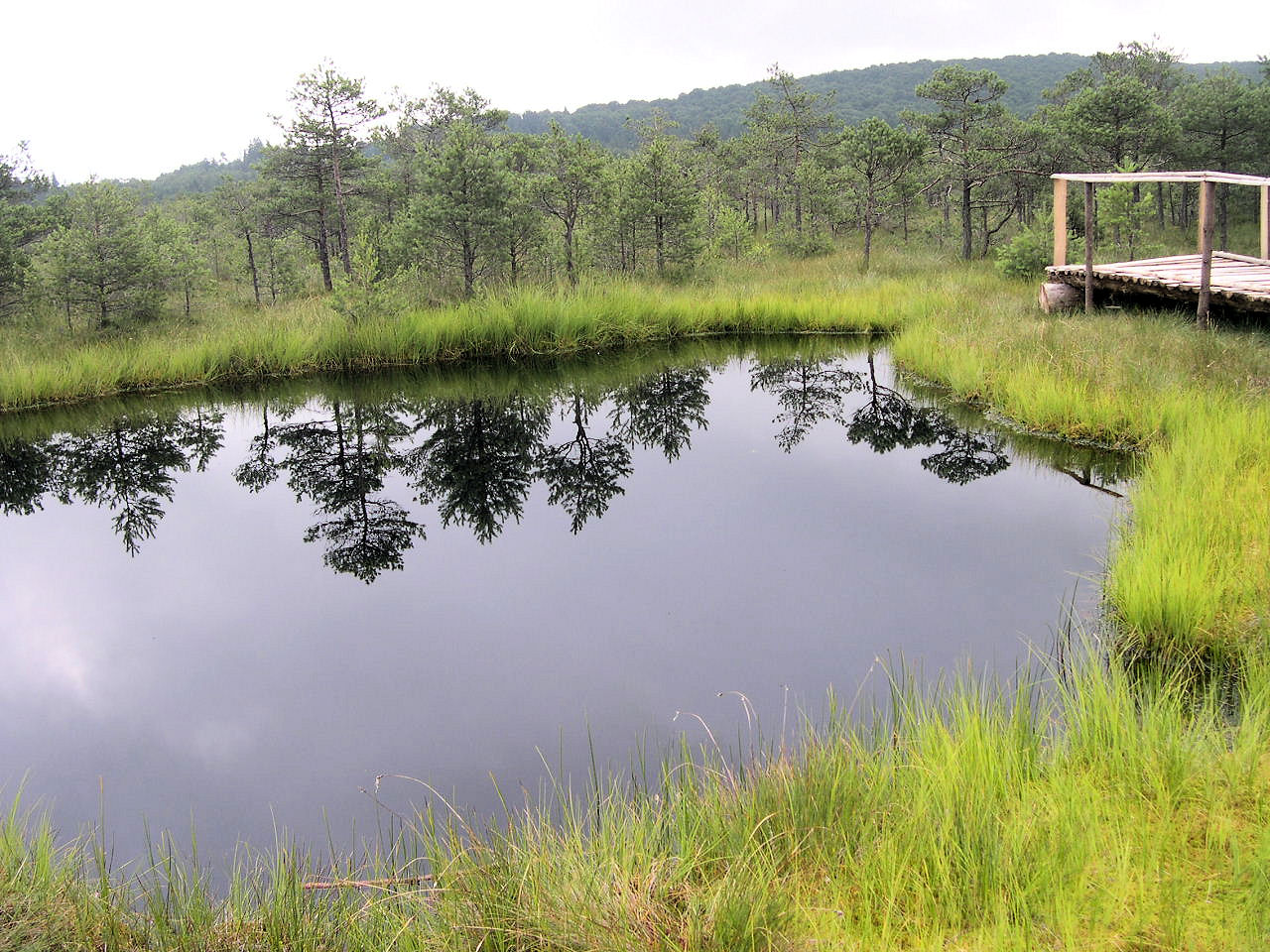 A Mohos-tőzegláp photo taken by uploader User:Csanády in 2006.